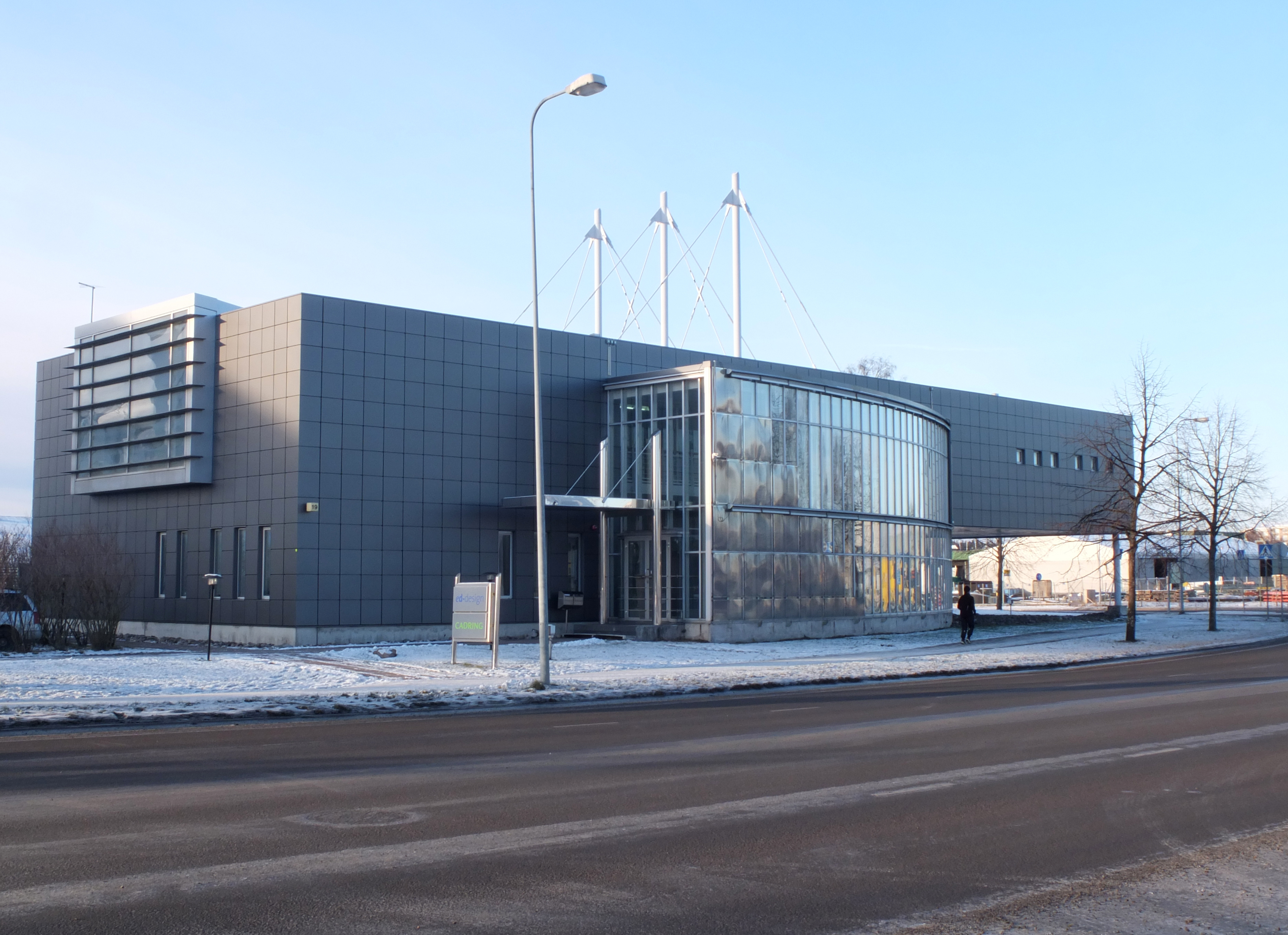 Office building of design agency ED Design, Juhana Herttuan puistokatu, Turku, Finland.